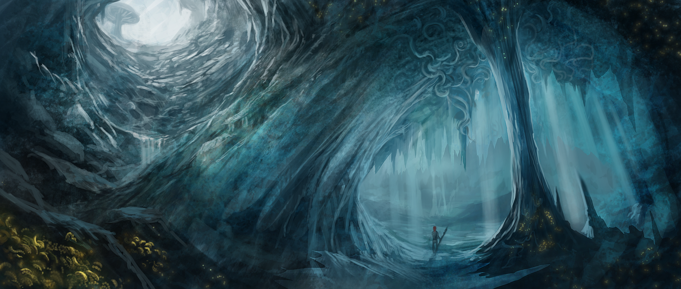 Concept-art done for Sintel , 3rd open-movie of the Blender Foundation. Artwork : David Revoy. Artwork made with Gimp-painter 2.6 and Mypaint 0.7.